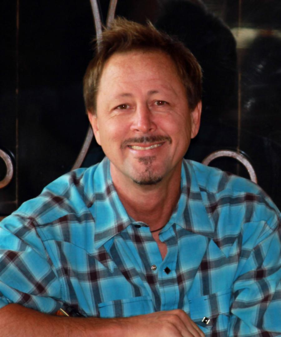 Image of filmmaker Kevin Meyer Other information I have requested that Kevin Meyer send you the permission for image use directly to .